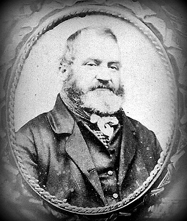 Captain John Parker, Whaling Master (1800-1867)